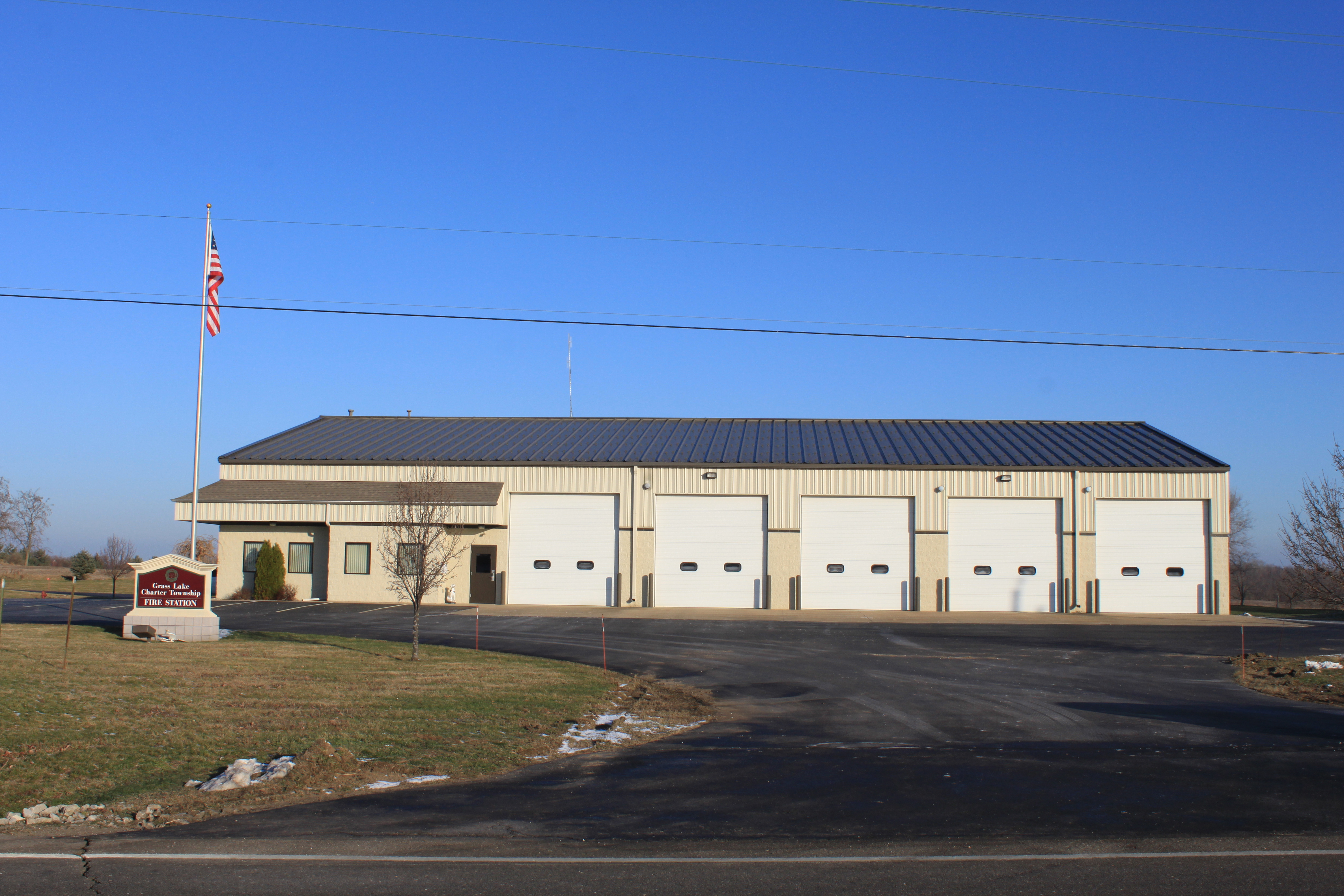 Grass Lake Charter Township Fire Station, 12222 East Michigan Avenue, Grass Lake, Michigan.